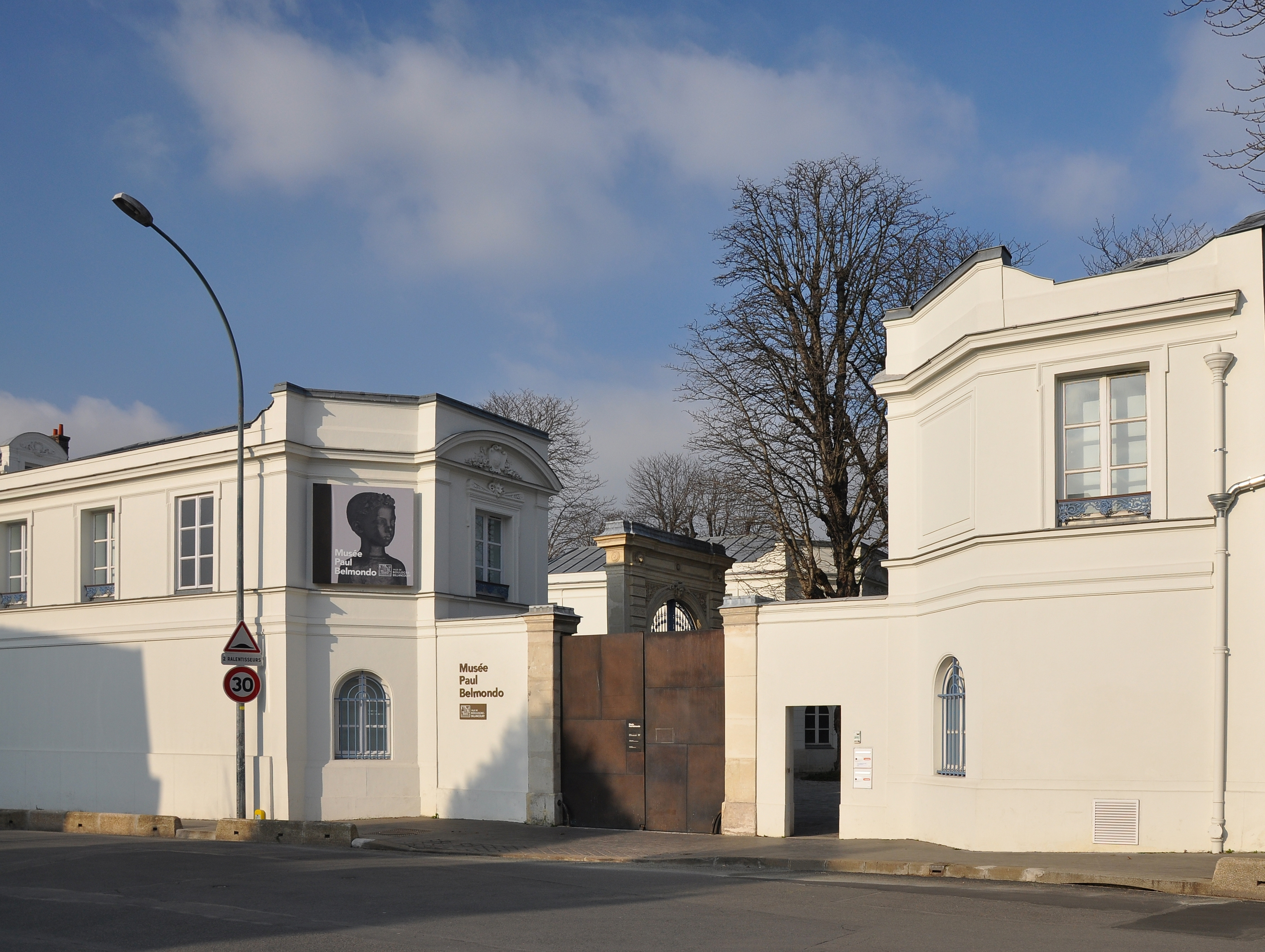 The entrance of museum Paul Belmondo in Boulogne-Billancourt , Hauts-de-Seine in France.